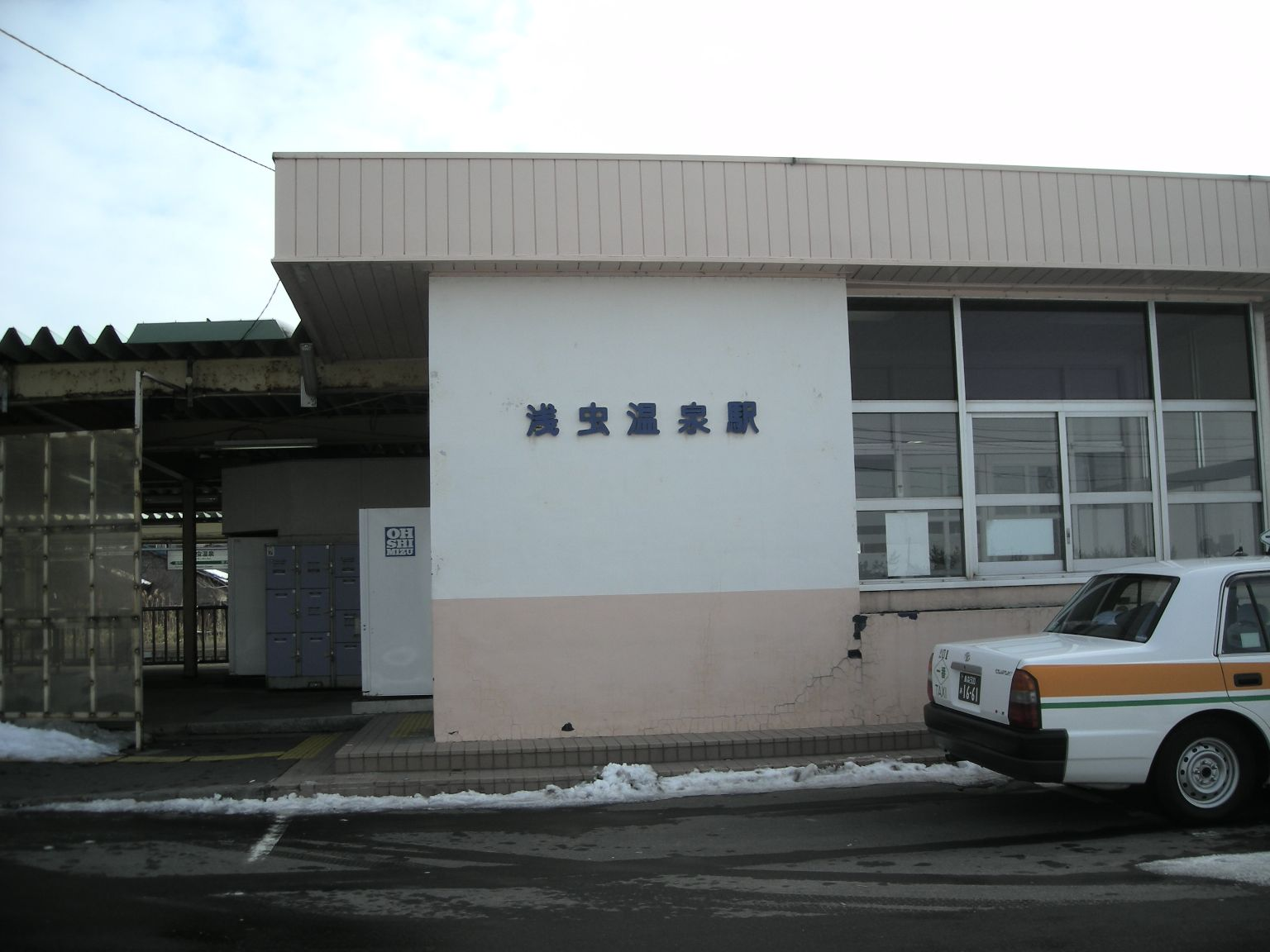 JR East Asamushi-onsen Station Bldg.